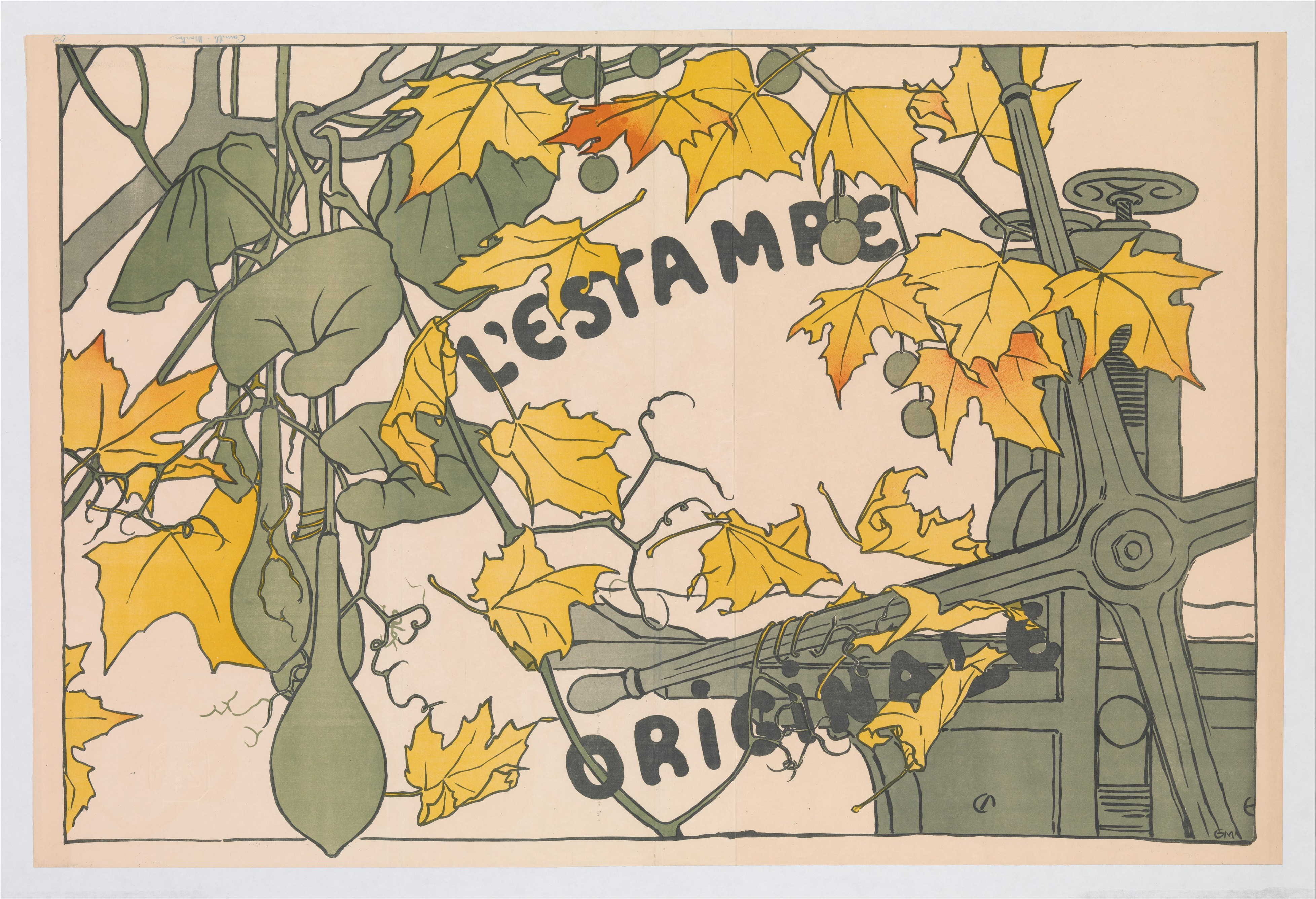 Print; Prints